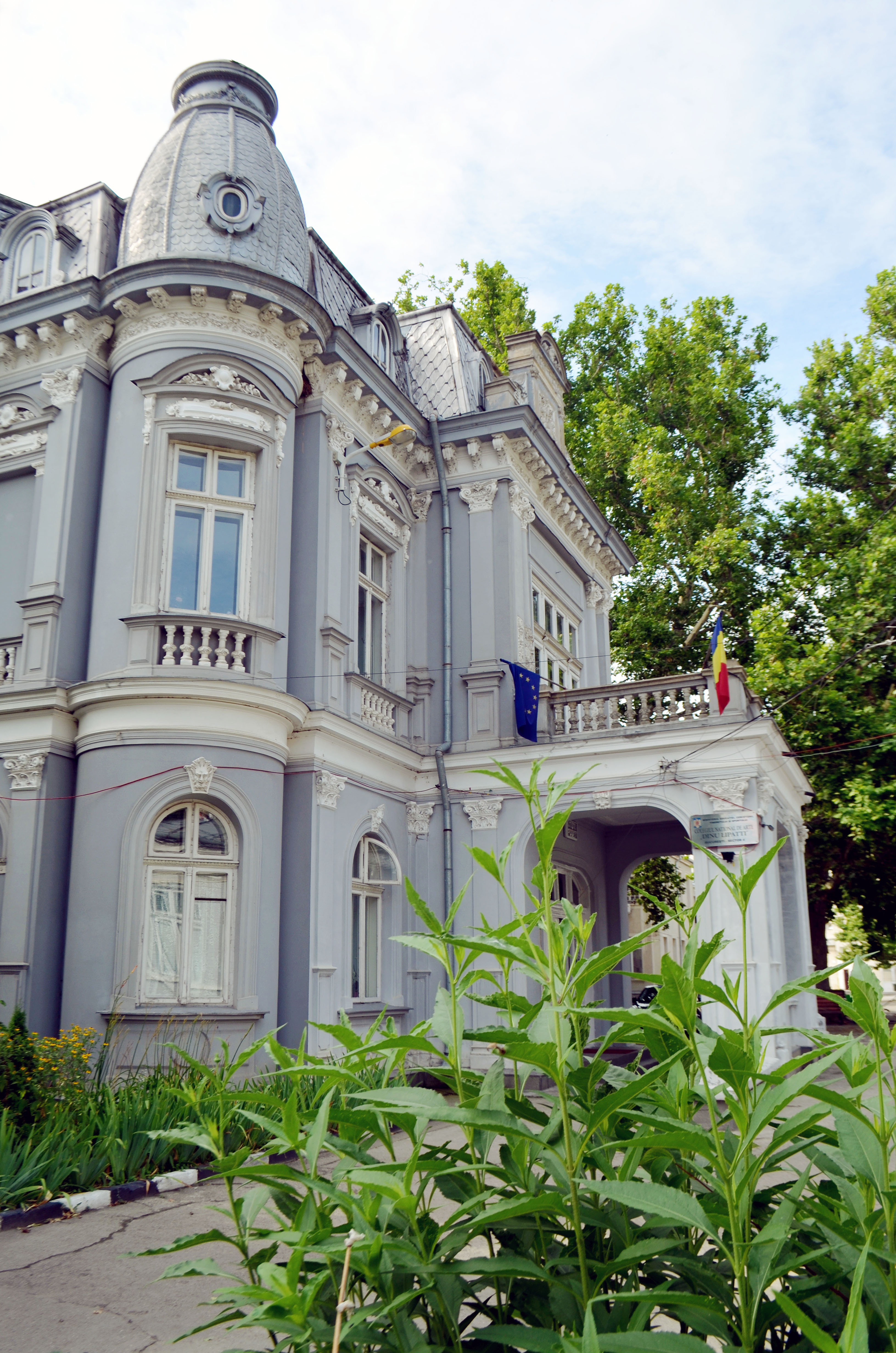 art school